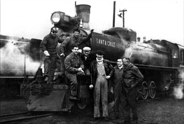 Livio Dante Porta and crew posing by 2-10-2 Mitsubishi Mihari Works (s/n 852) 750 mm-gauge locomotive "Santa Cruz" #110 of Ramal Ferro Industrial de Río Turbio. El ingeniero Livio Dante Porta y su grupo de trabajo posando junto a la locomotora de trocha 750 mm 2-10-2 Mitsubishi Mihari Works (nº de serie 852) "Santa Cruz" Nº 110 del Ramal Ferro Industrial de Río Turbio.